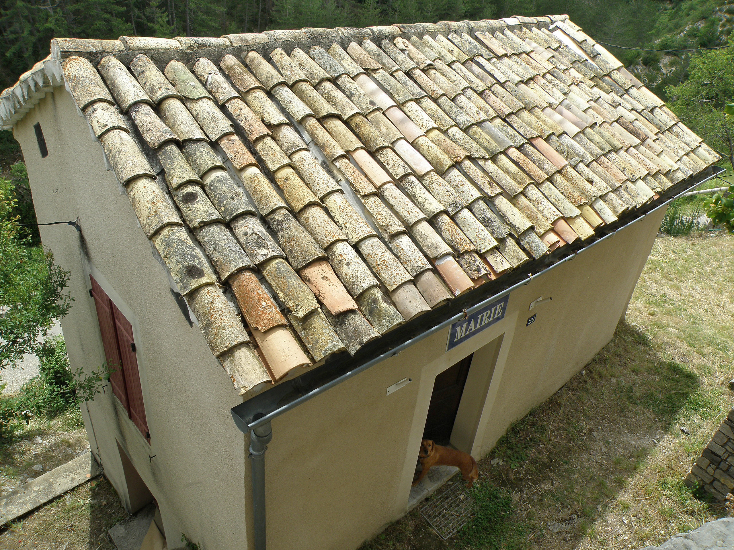 Aulan (Drôme, France). Mairie.